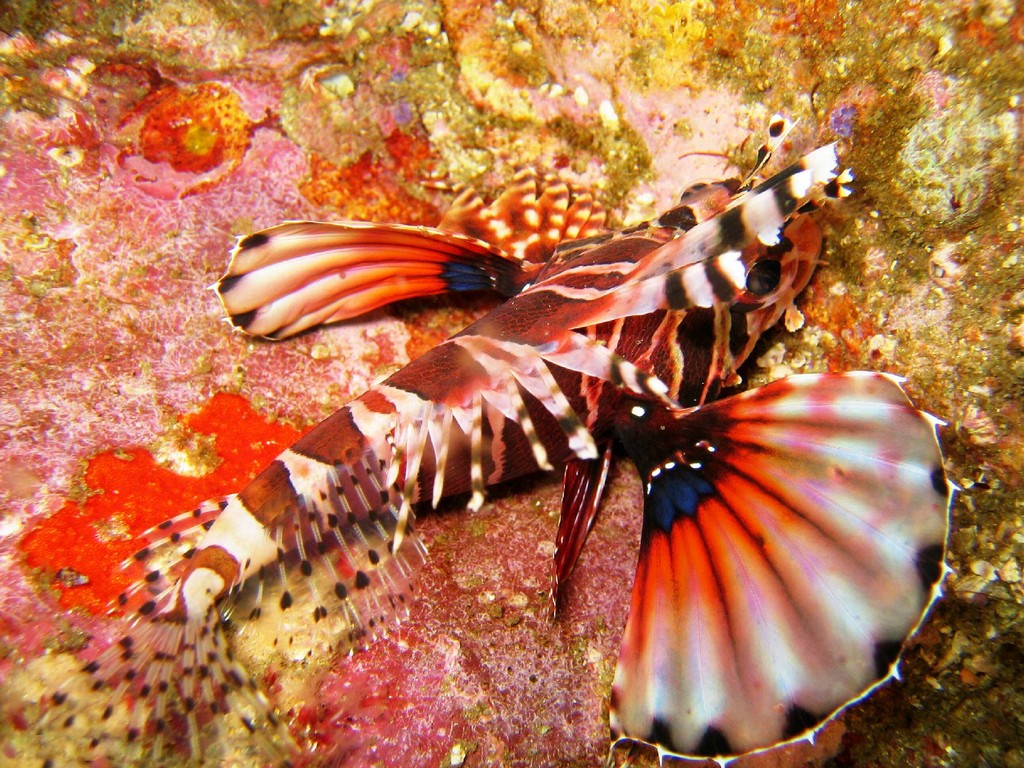 Zebra Lionfish (Dendrochirus zebra) displaying pectoral fins. Fish Rock Cave, South West Rocks, NSW